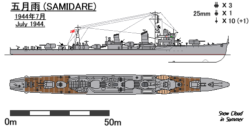 Figure of Japanese Shiratsuyu-class destroyer SAMIDARE in July 1944.